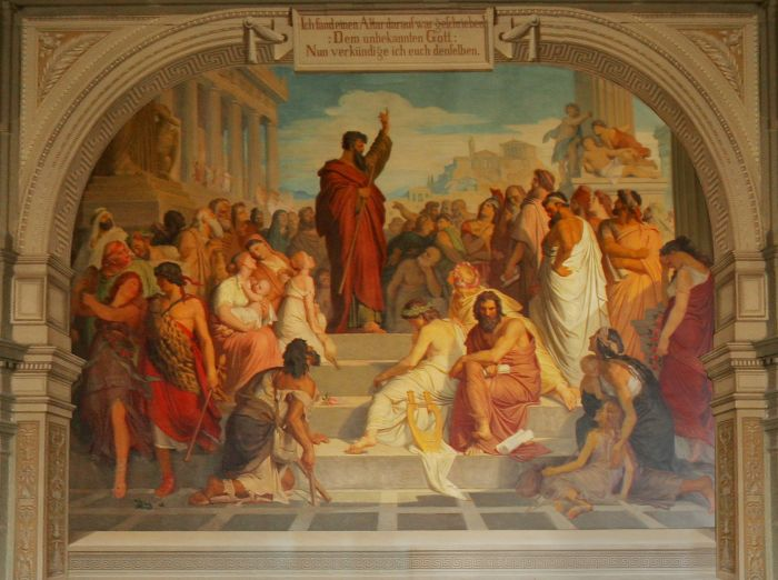 Wall painting in the auditorium of the Christian-Weise-Gymnasium in Zittau, Saxony.